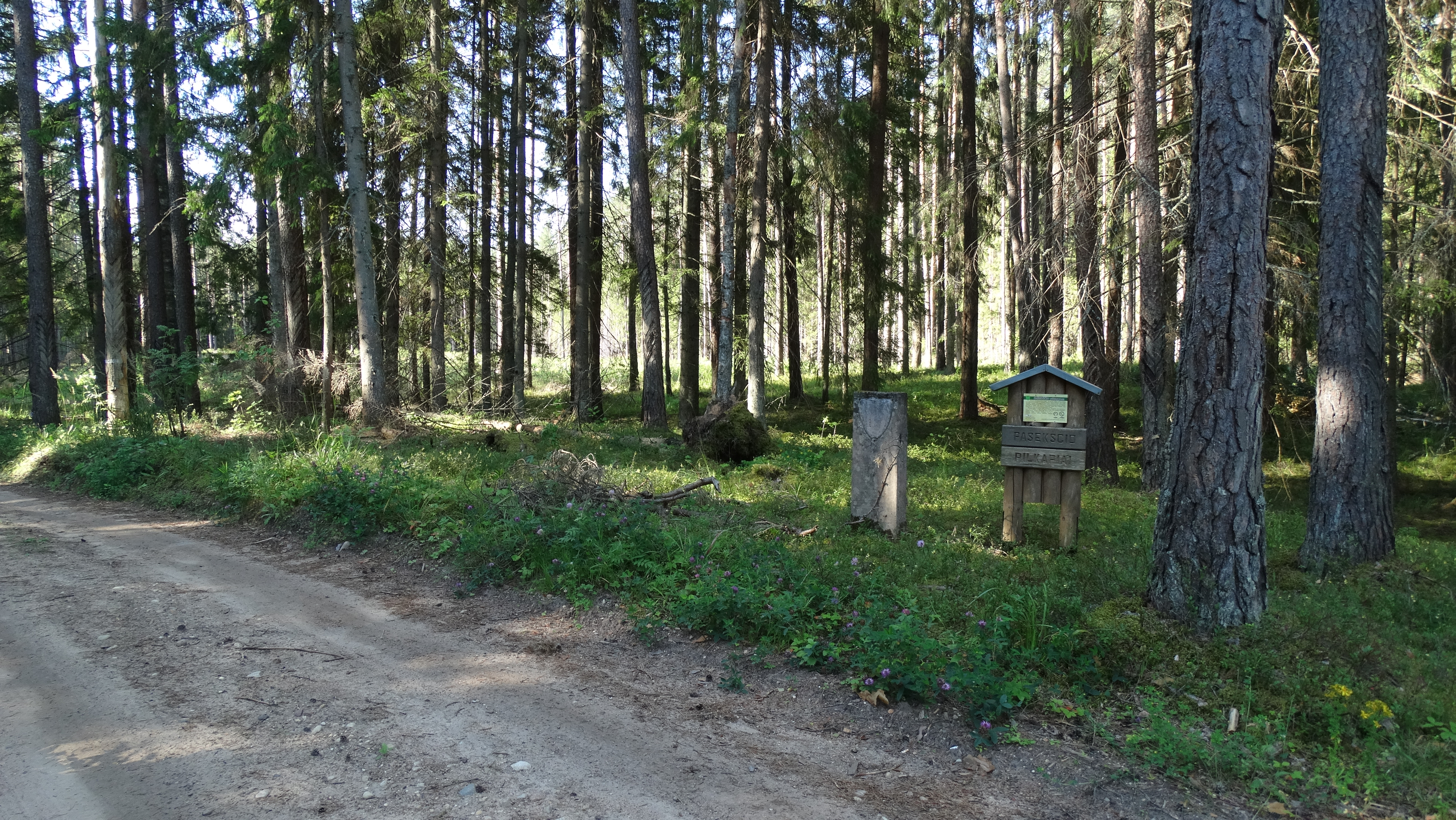 Pašekštis Tumuli, Švenčionys district, Lithuania